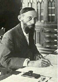 Nathaniel Lord Britton (1859 - 1934) was a US botanist and taxonomist who founded the New York Botanical Garden in Bronx, New York. Britton was born in New Dorp in Staten Island, New York.